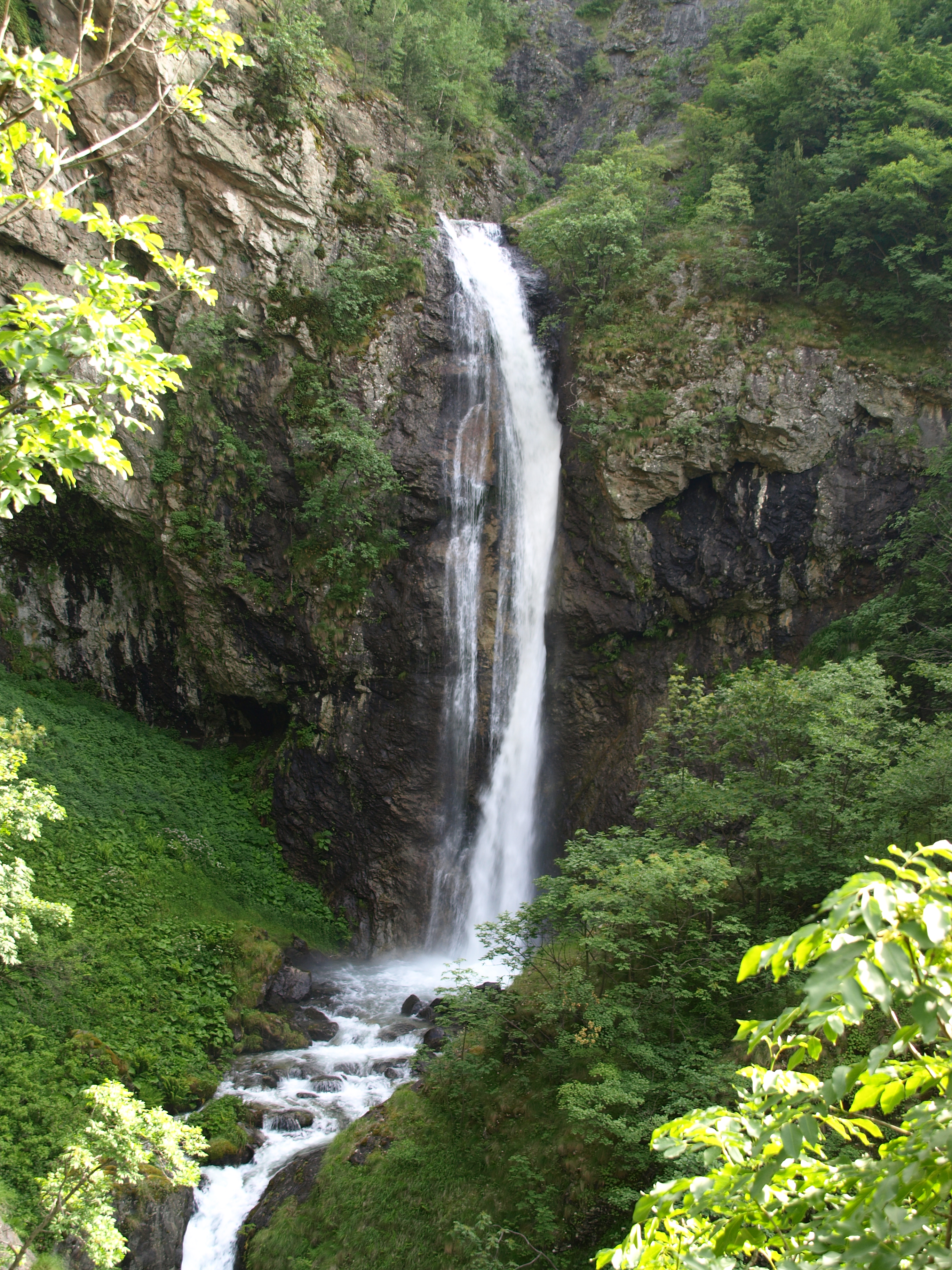 Goritsa Waterfall, Rila National Park